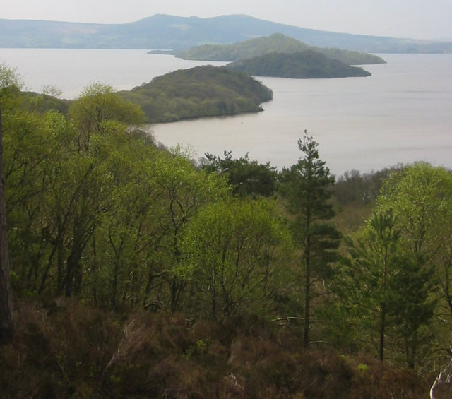 Islands in Loch Lomond. Looking south west from Inchcailloch along the line of the Highland Boundary Fault to Torrinch, Creinch, Inchmurrin and Ben Bowie.